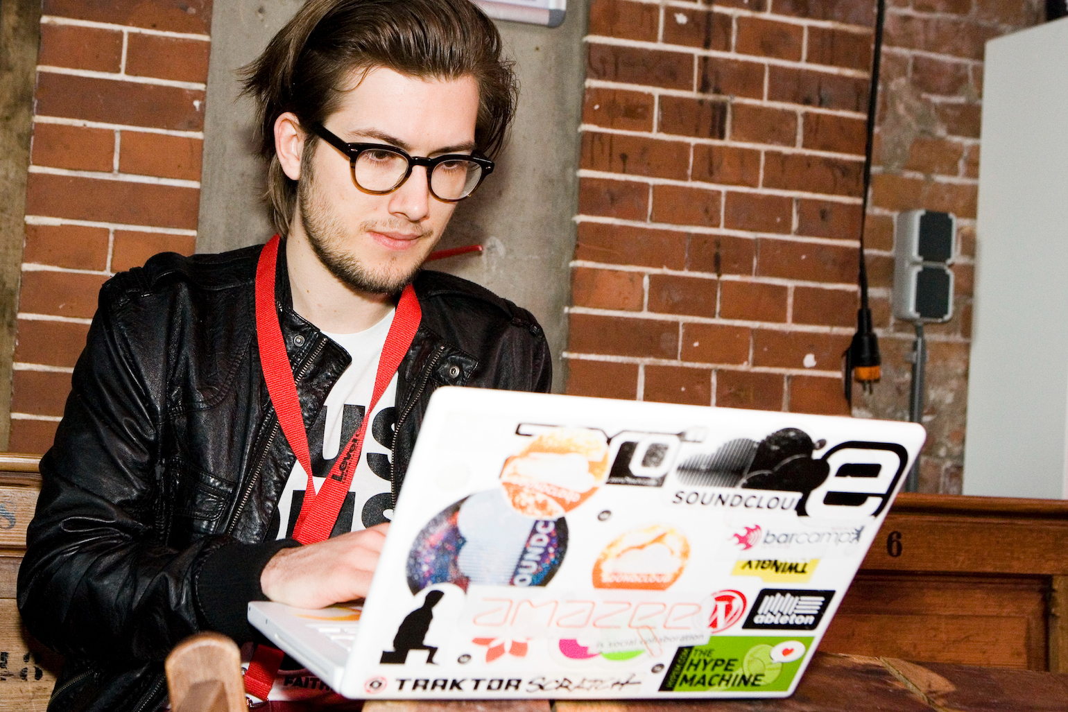 Pictures taken during The Next Web 2009 in Amsterdam.